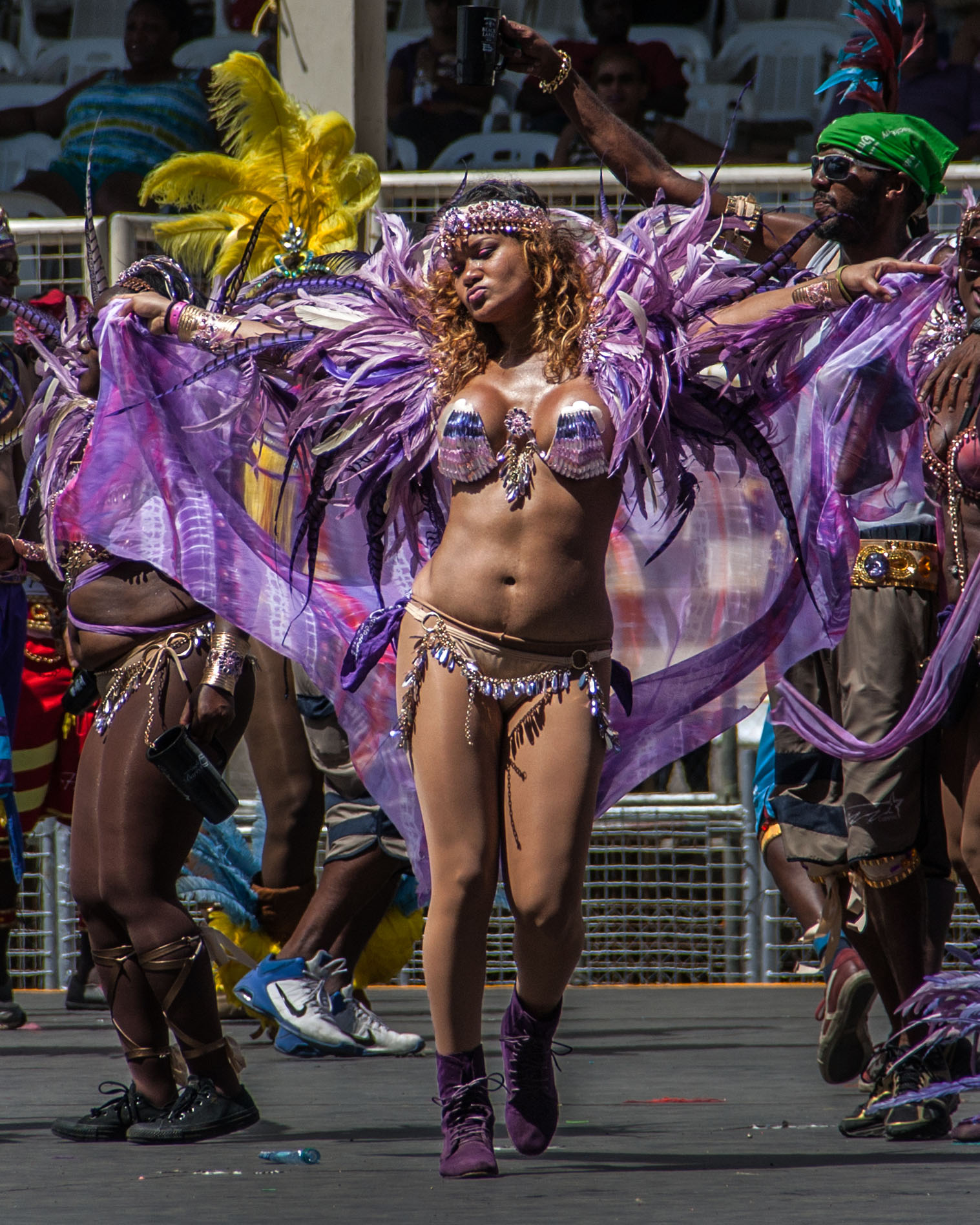 Parade of the Bands, Trinidad & Tobago Carnival